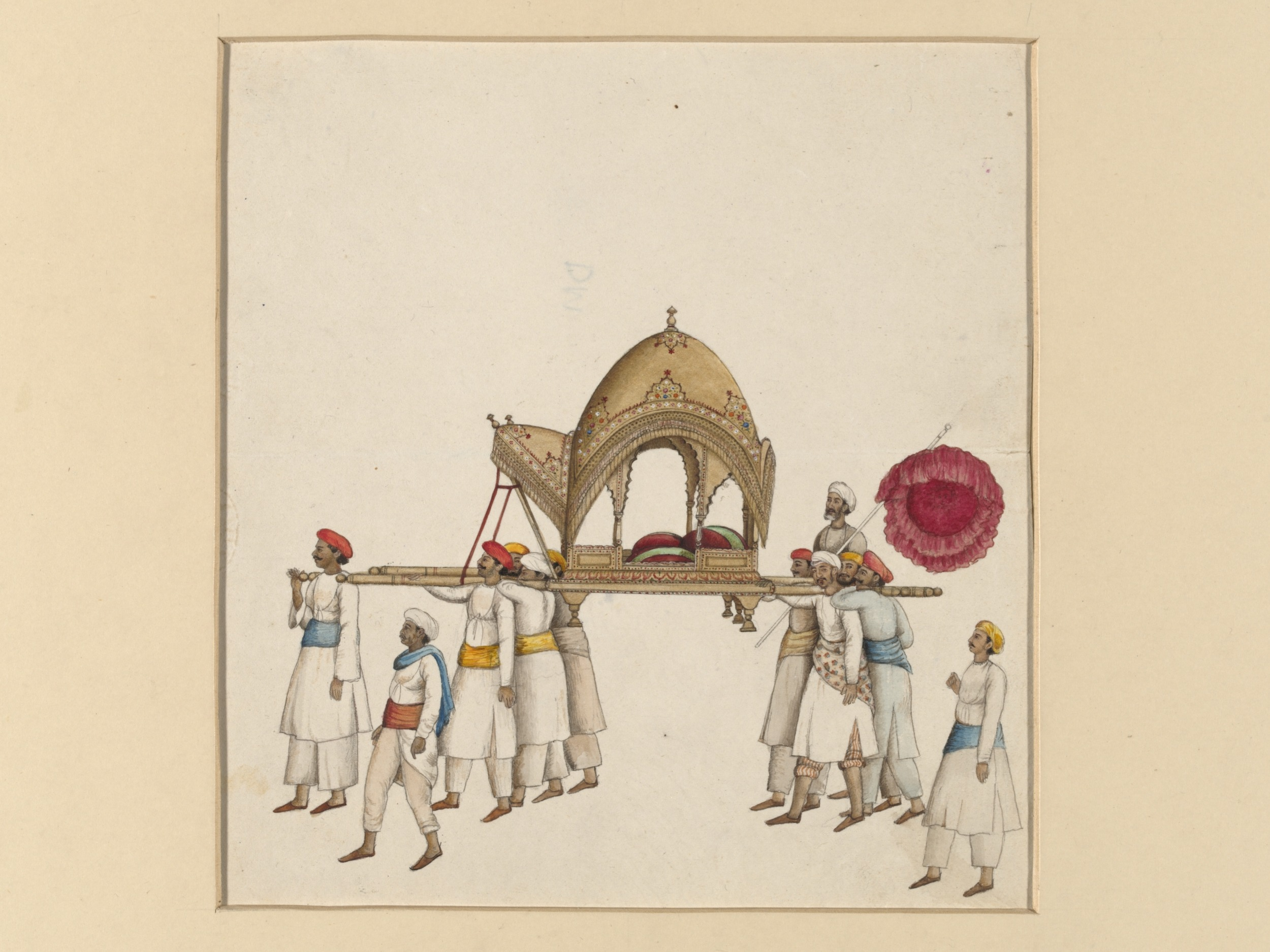 One of six figures from the Mughal emperor's ceremonial procession on the occasion of the Id Object: Painting Place of origin: Delhi, India (painted) Date: ca. 1840 (painted) Artist/Maker: Khan, Mazhar Ali (possibly, maker) Materials and Techniques: Gouache on paper Museum number: IS.485-1950 Gallery location: In Storage This Company Painting is from a set of six depicting scenes from the Mughal emperor's ceremonial procession on the occasion of the Muslim Id festival. The painting is possibly by Mazhar Ali Khan and dates from about 1840, during the reign of the last emperor and King of Delhi, Bahadur Shah II (r.1838-1858). The picture shows an empty covered sedan or carrying-chair for the queen or ladies of the first rank; it is carried by nine men, with three other attendants, one of whom holds a large sun-shade. The Id festival is celebrated at the end of the month of Ramazan. 'Company paintings' were produced by Indian artists for Europeans living and working in the Indian subcontinent, especially British employees of the East India Company. They represent a fusion of traditional Indian artistic styles with conventions and technical features borrowed from western art. Some Company paintings were specially commissioned, while others were virtually mass-produced and could be purchased in bazaars.